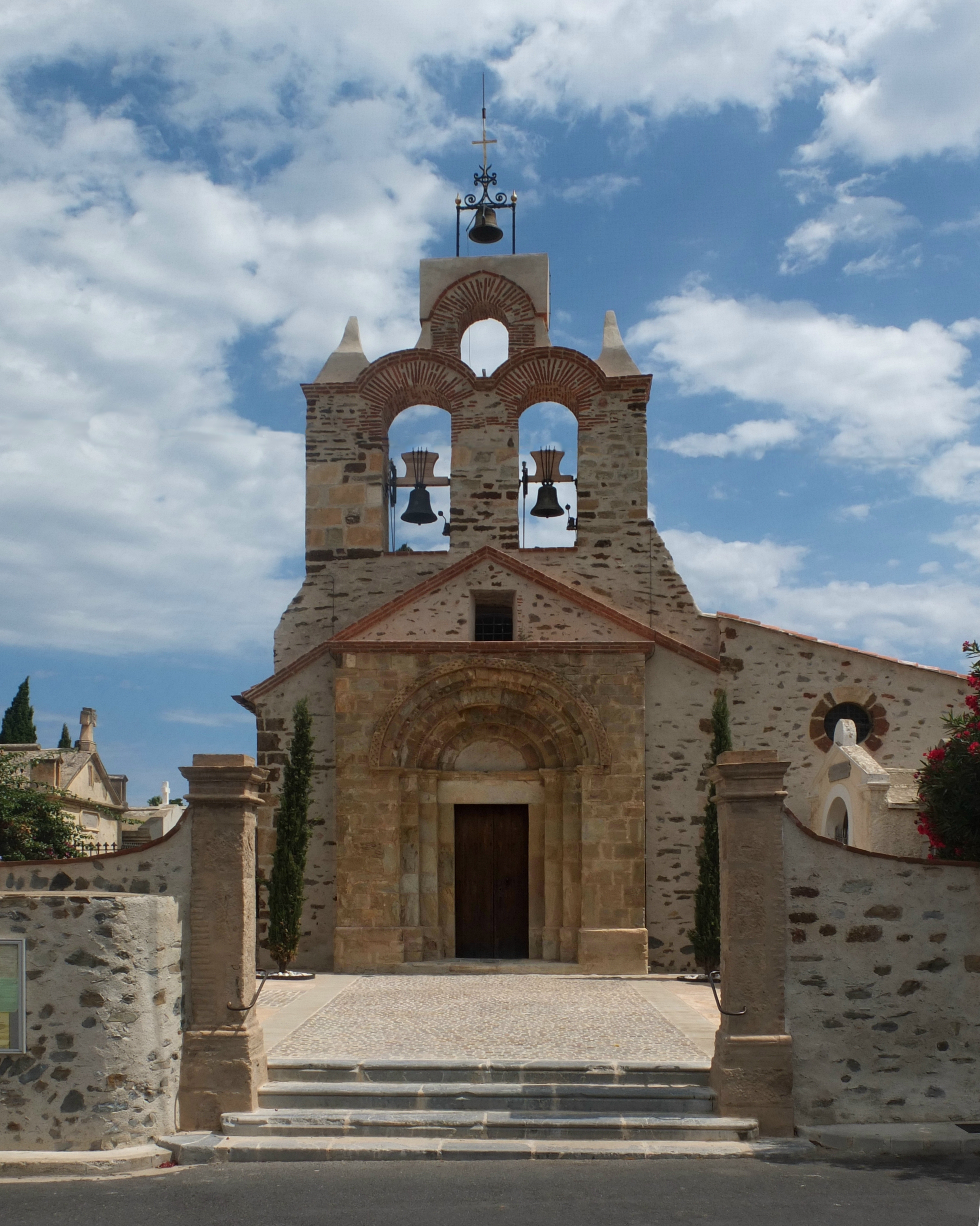 Église de la Rectorie (12th century), Banyuls-sur-Mer, France, view from E.